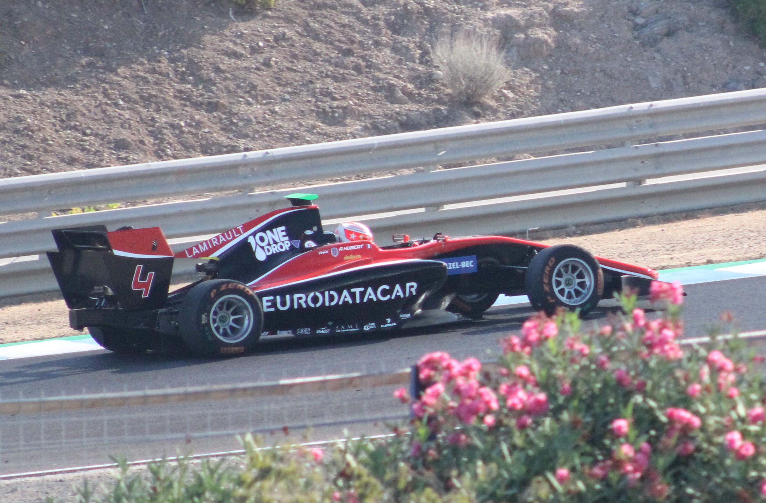 Anthoine Hubert racing for ART GP in Jerez, 2017